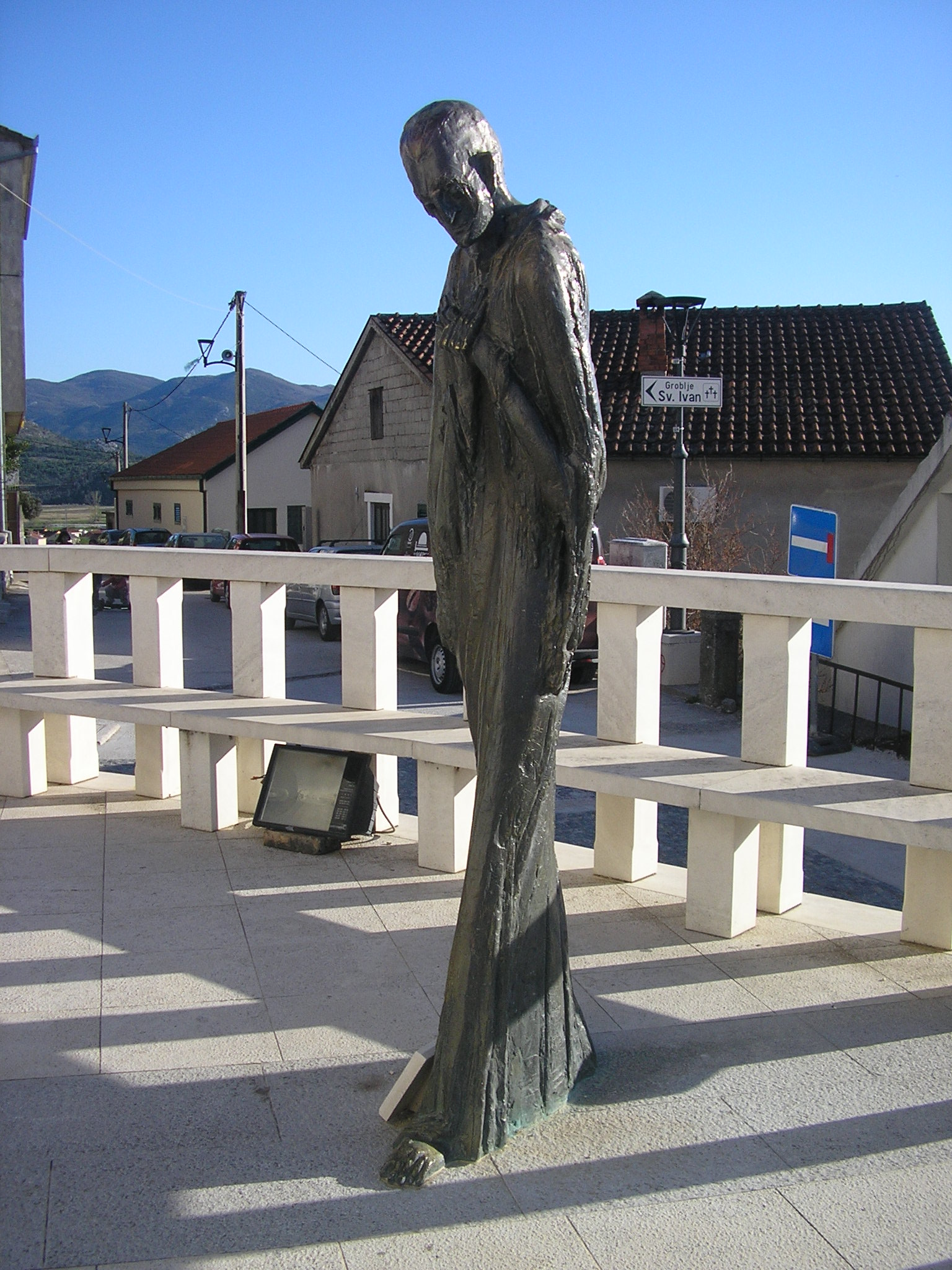 Father Ante Gabrić monument near Saint Elijah church in Metković